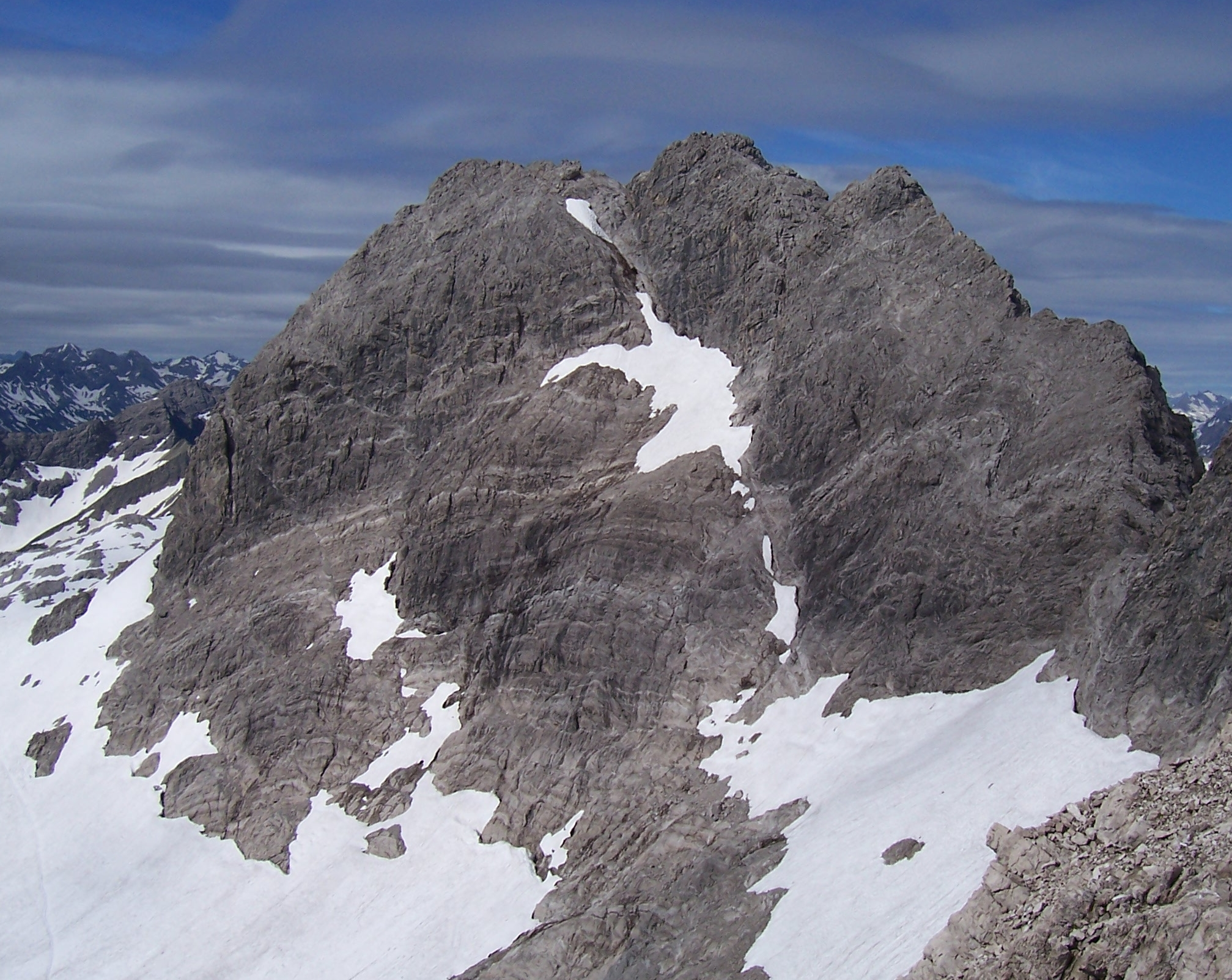 Hochfrottspitze viewn from the ascend to the Mädelegabel